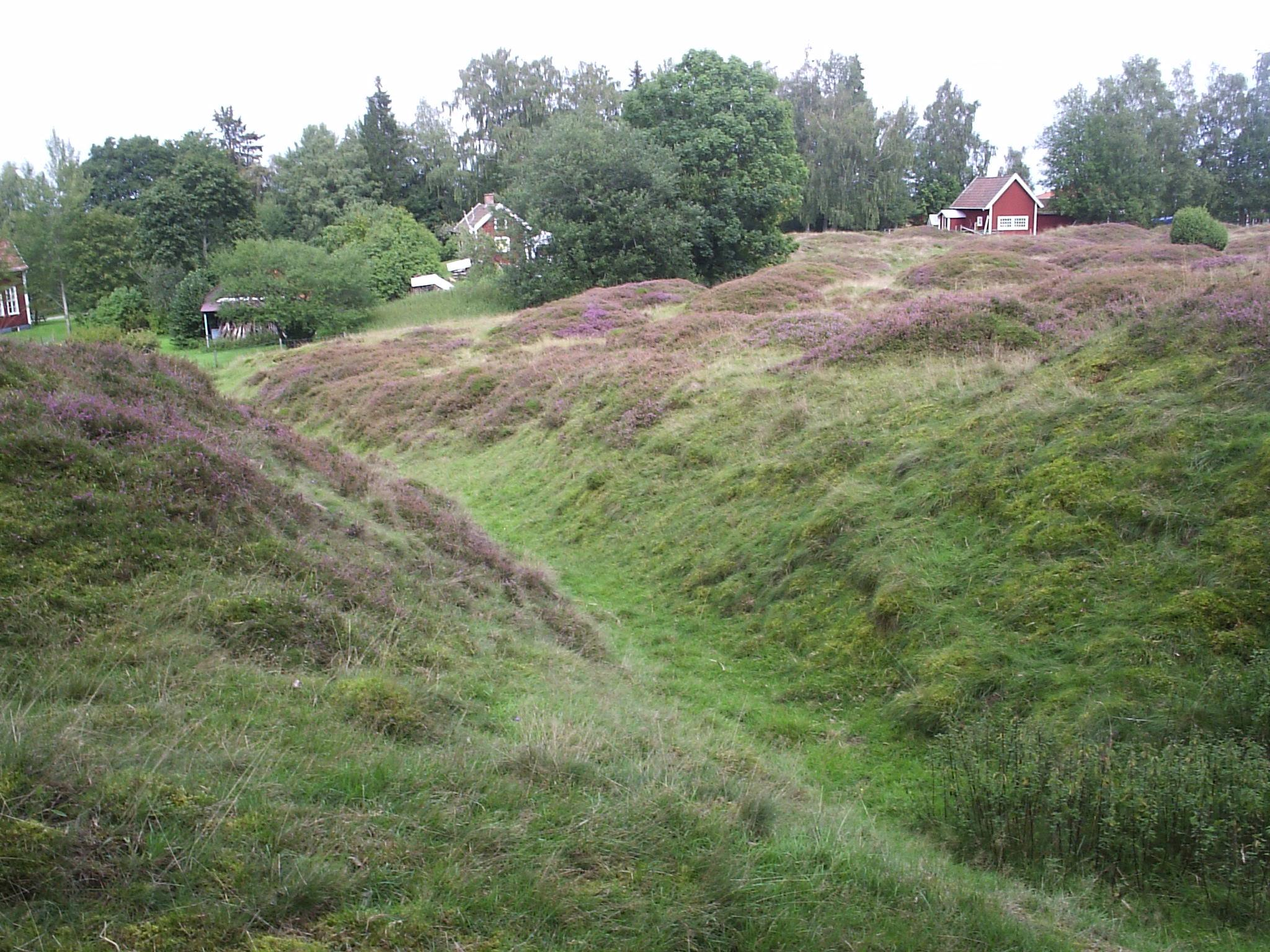 Photo by Harri Blomberg.